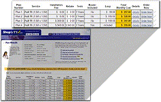 Screenshot of GeoQuote on the web site